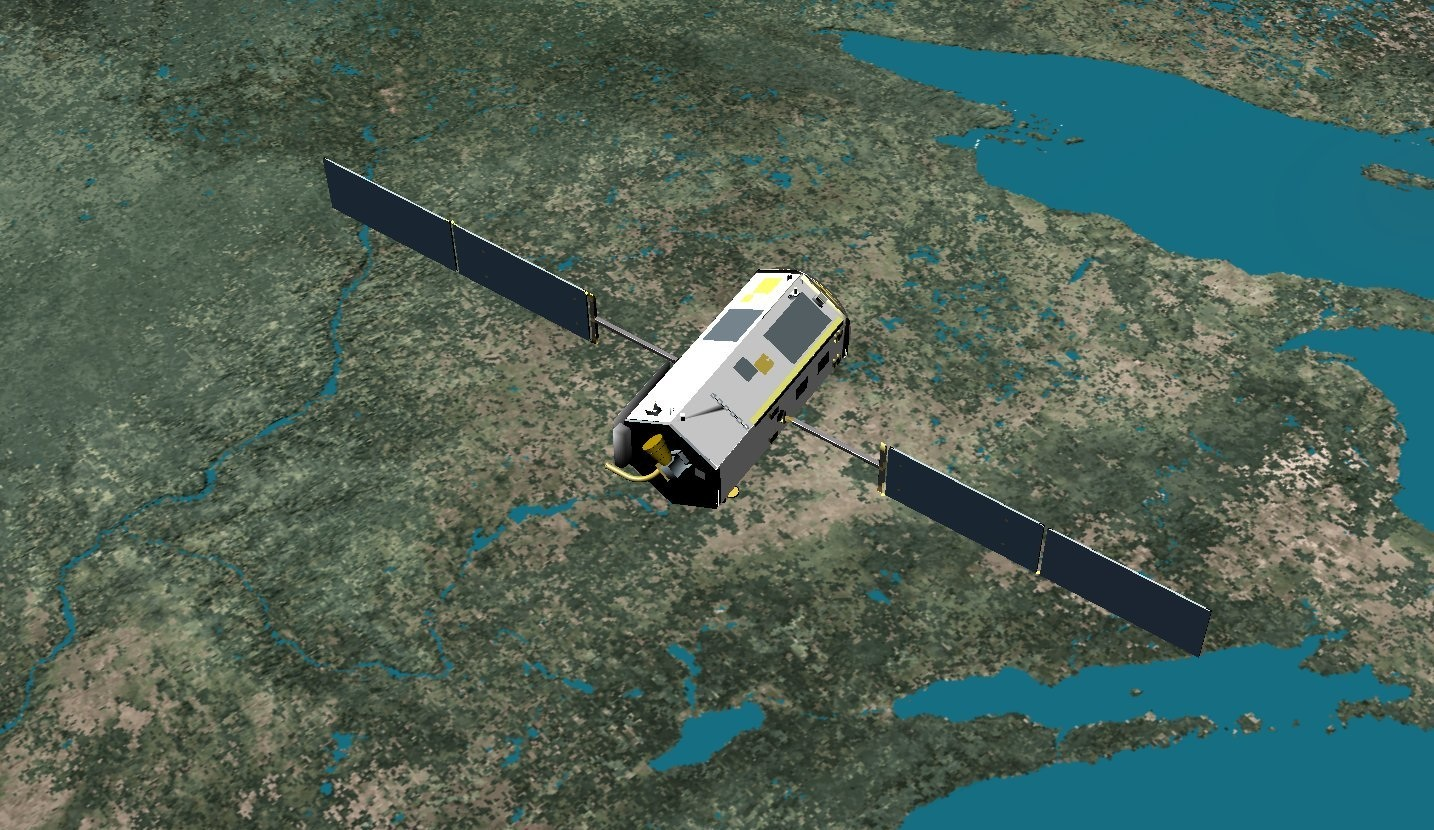 Artist's concept of NASA's Orbiting Carbon Observatory.